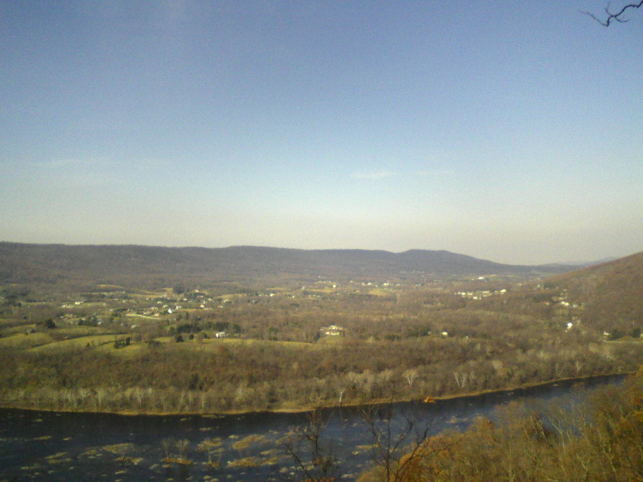 Pleasant Valley, Maryland as seen from Short Hill Mountain in Virginia